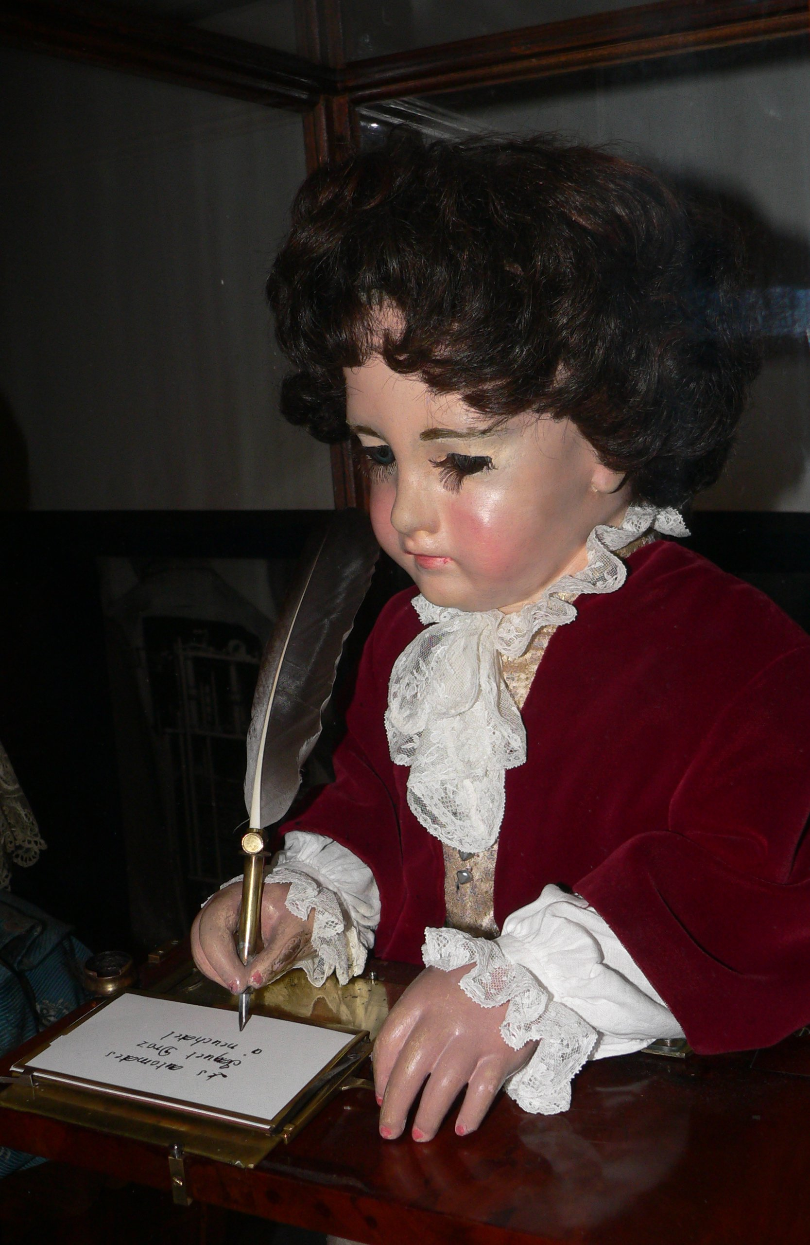 Jaquet-Droz automata, mus�e d'Art et d'Histoire de Neuch�tel